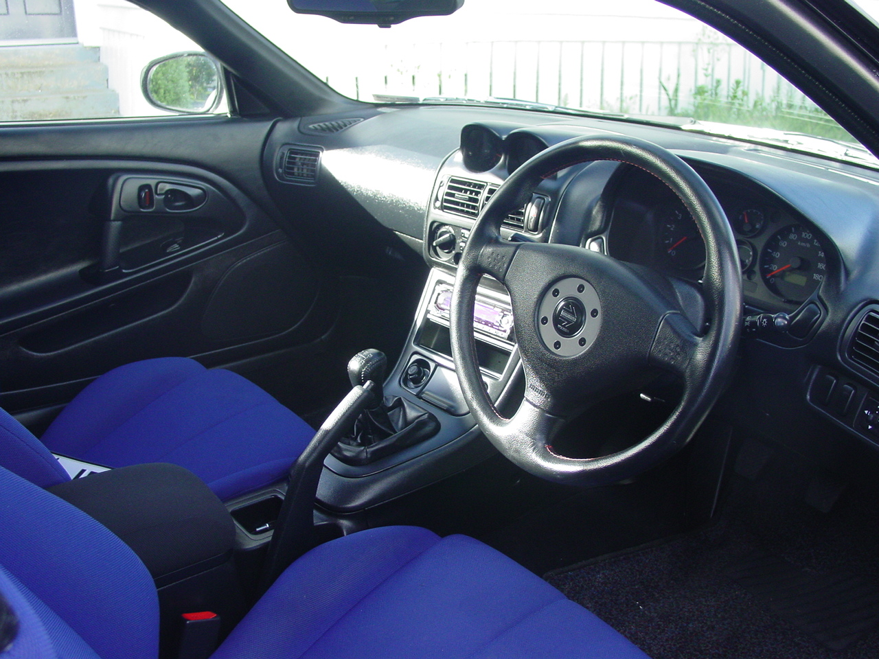 Interior of a 1997 Mitsubishi FTO GP Version R (Japan), showing distinctive blue seats available on models with white exterior paint only.